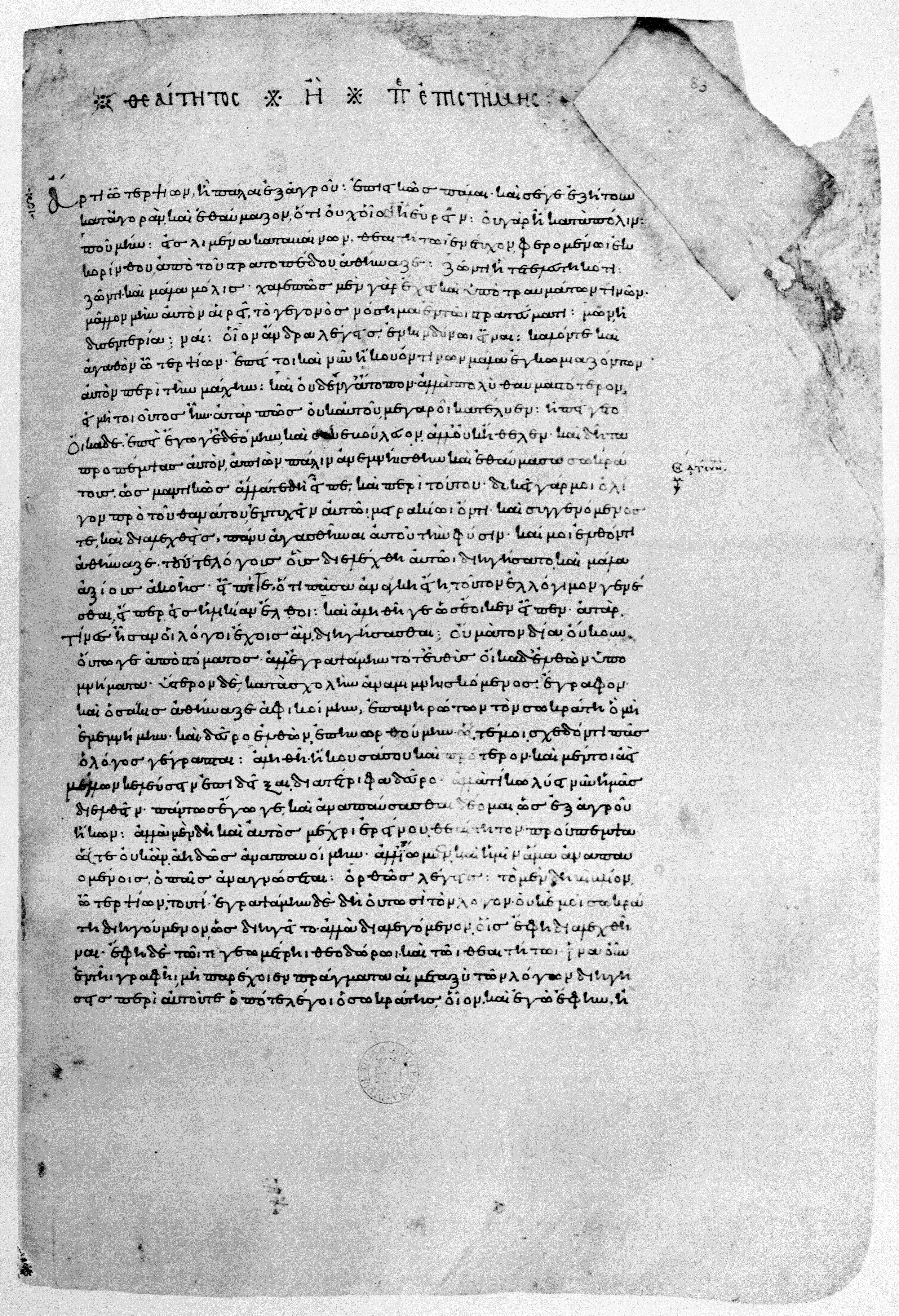 Page of the Codex Oxoniensis Clarkianus 39 (Clarke Plato). Dialogue Theaitetos.